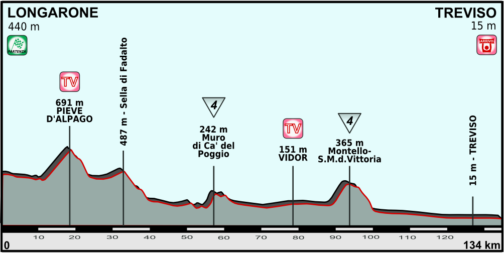 Giro d'Italia 2013 - stage profile # 12